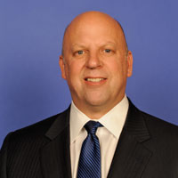 Scott DesJarlais, member of the United States House of Representatives.